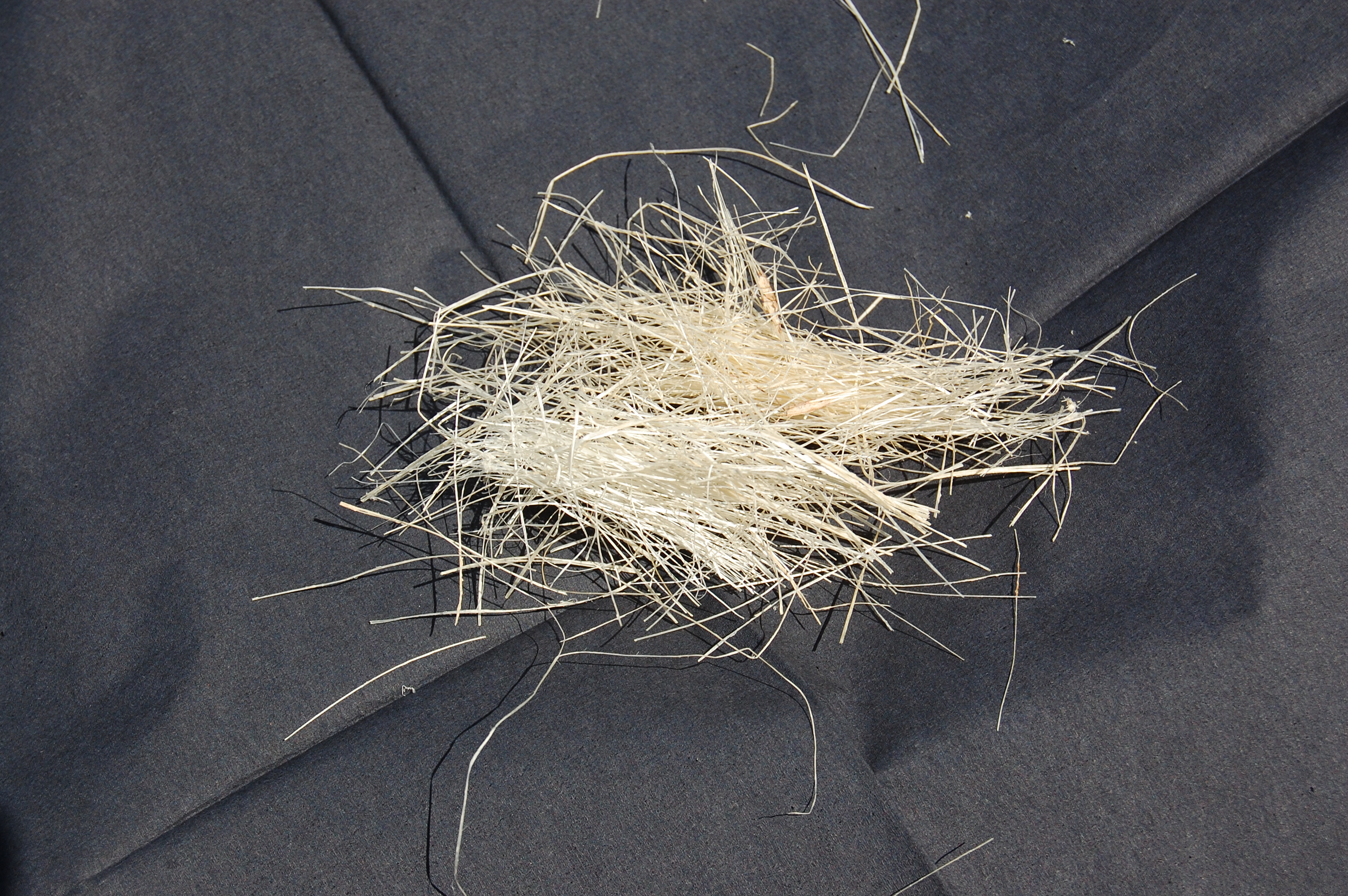 Sisal fibres